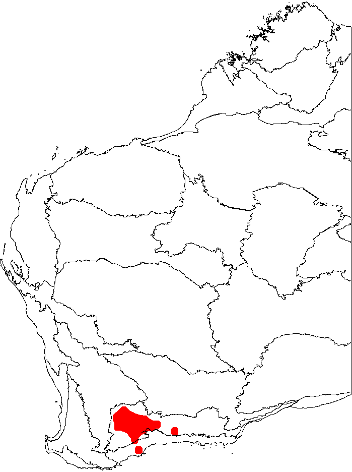 This is a map of Western Australia, showing the distribution of Banksia xylothemelia superimposed on a background of the IBRA 6.1 biogeographic regions.